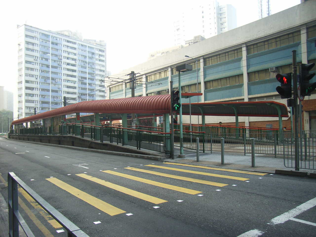 杯渡路, Pui To Road, Tuen Mun, New Territories, Hong Kong. (Photo created by User:TUmuMATo)。